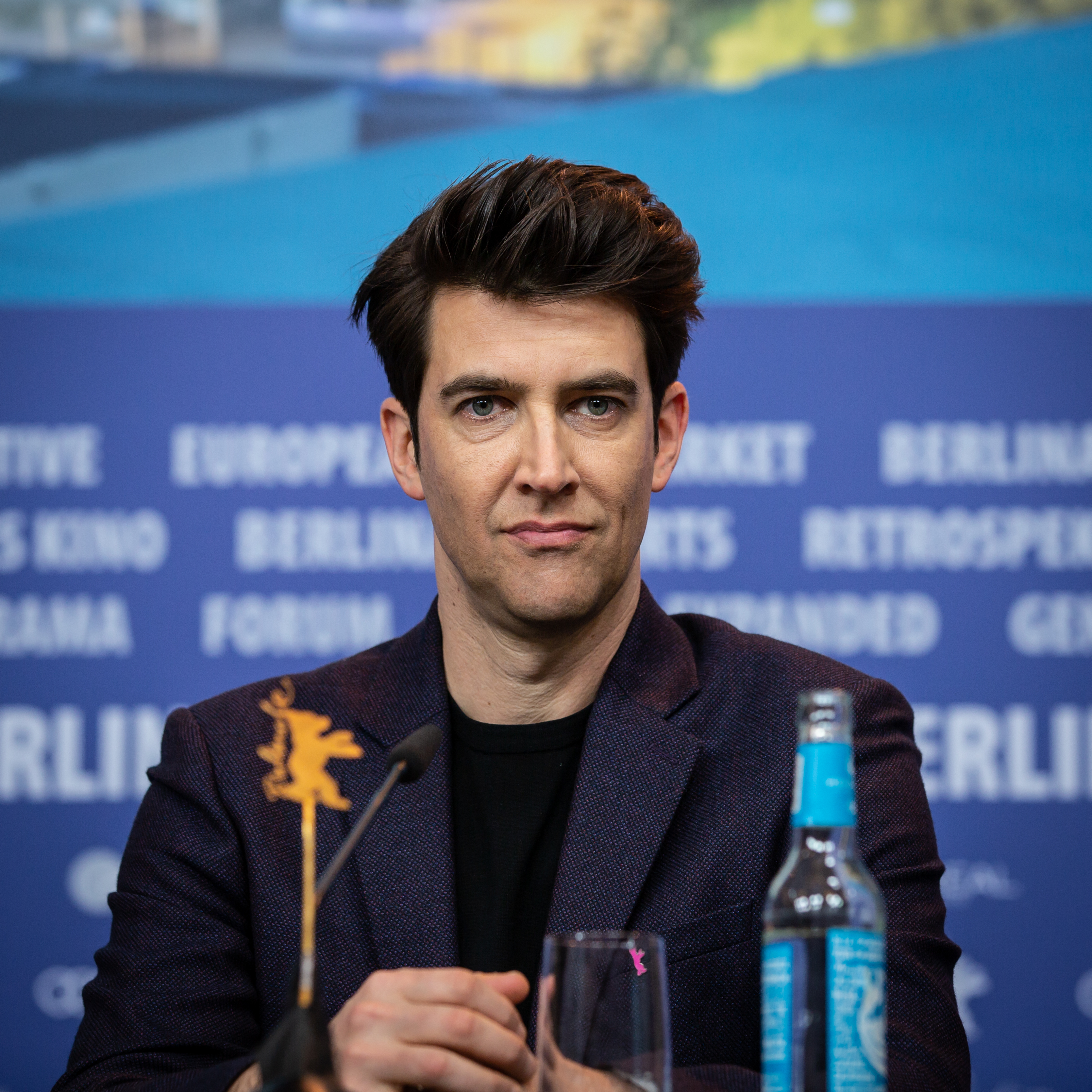 Film director Guy Nattiv at the Berlinale 2019